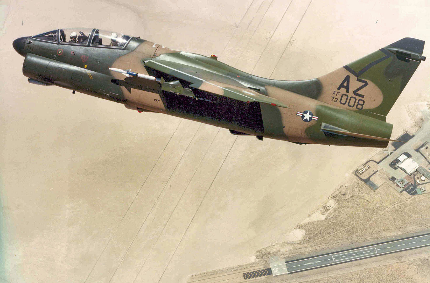 A U.S. Air Force Ling-Temco-Vought YA-7K (S/N 73-1008) of the 162nd Tactical Fighter Group, Arizona Air National Guard. This aircraft was bulit as a standard A-7D-15-CV. It was converted to the two-seat YA-7K and first flew in January 1981. 1973: Delivered to 355th Tactical Fighter Wing/354th TFS, Davis-Monthan AFB, AZ (c/n D-404) Transferred to 354th Tactical Fighter Wing/355th TFS, Myrtle Beach AFB, SC, 1973 Transferred to 186th Tactical Fighter Squadron, OK Air National Guard, 1977 Removed from operational service, flown to LTV at Hensley Field (Naval Air Station Dallas) for modification to YA-7K, 1979 Delivered as A-7K to to 4450th Tactical Group/4451st TS, Nellis AFB, NV, 1981 Transferred to 152d Tactical Fighter Squadron, AZ Air National Guard, 1989 Transferred to 198th Tactical Fighter Squadron, PR Air National Guard, 1990 Transferred to AMARC as AE0033 Jun 19, 1991 Disposition: 15-JUN-98 / To Fritz Enterprises, Taylor, MI. (Actually to HVF West yard, Tucson). Scrapped.